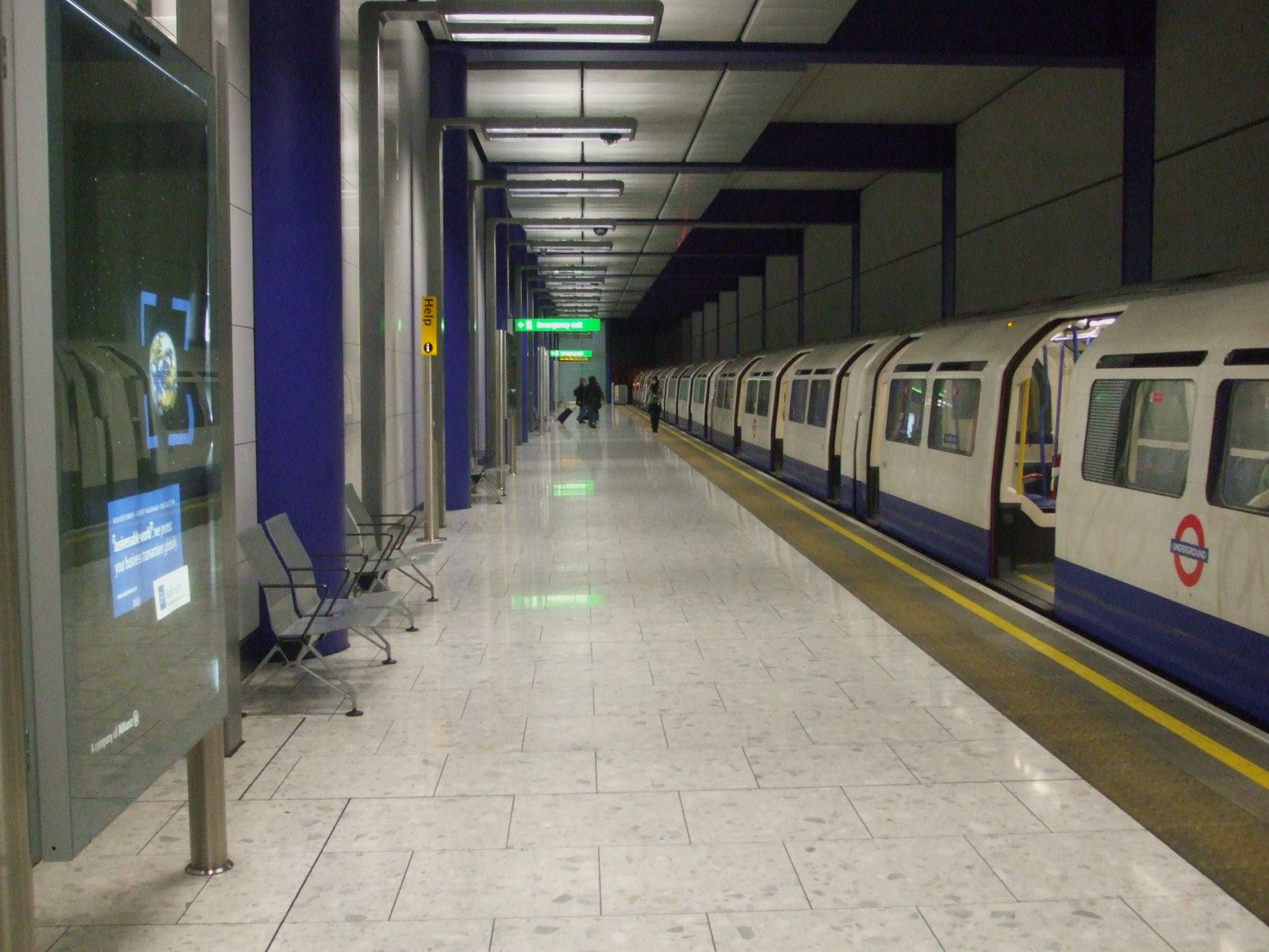 Heathrow Terminal 5 tube station platform 6 looking west, with a Piccadilly line train of 1973 stock awaiting departure towards Central London